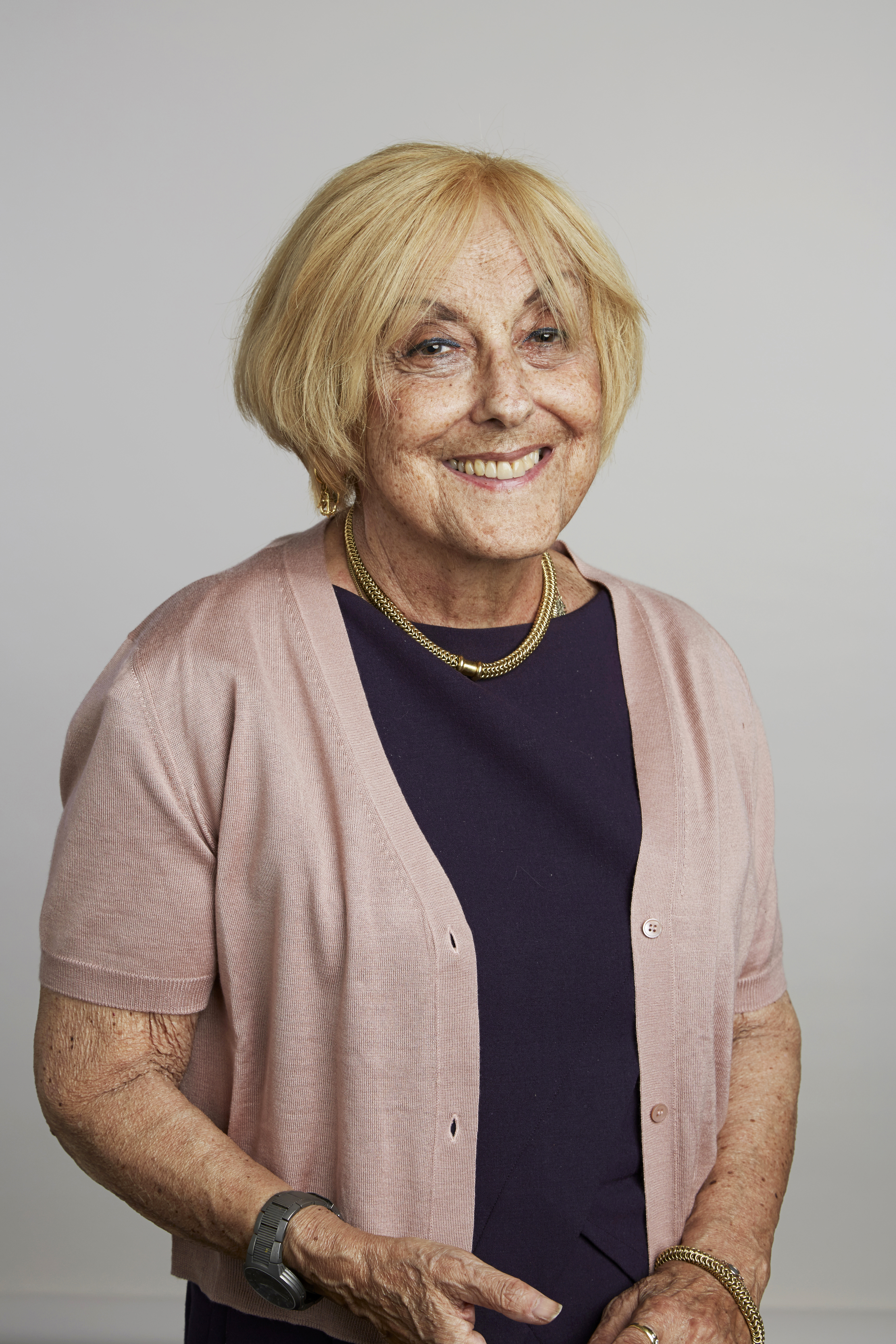 Lisa Jardine is Professor of Renaissance Studies at UCL and Director of the UCL Centre for Editing Lives and Letters. She is a Fellow of the Royal Historical Society and an Honorary Fellow of King’s College, Cambridge and Jesus College, Cambridge. She holds honorary doctorates of letters from the University of St Andrews, Sheffield Hallam University and the Open University, and of science from the University of Aberdeen. She was a Trustee of the Victoria and Albert Museum for eight years and a member of the Council of the Royal Institution for five years. She is Patron of the Archives and Records Association and the Baileys Women’s (formerly Orange) Prize for Fiction, and President of the Antiquarian Horological Society. From 2008 to 2014, Lisa was Chair of the UK Human Fertilisation and Embryology Authority. She is a Non-executive Director of the National Archives and an Honorary Bencher of the Society of the Middle Temple. From 2013 to 2014, she served as President of the British Science Association, which made her an Honorary Fellow in 2012. Attribution: The Royal Society